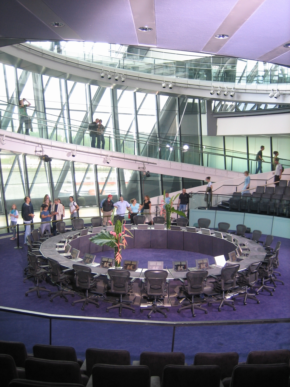 The Chamber of the Greater London Assembly